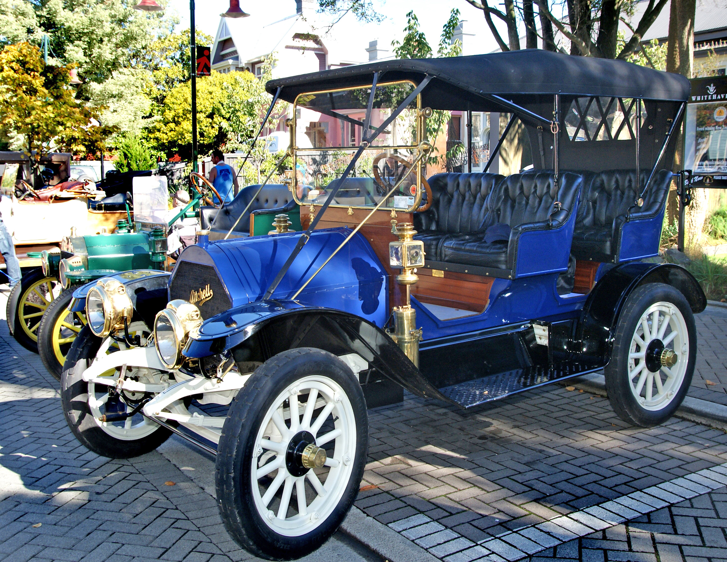 1911 Mitchell in Christchurch New ZealandMitchell-Lewis Motor Company was founded in 1900 in Racine, Wisconsin as a motorcycle maker spin-off from the wagon maker Mitchell & Lewis Company Ltd. The company began manufacturing automobiles in 1903. The wagon business and auto companies were combined into Mitchell-Lewis Motor Co. in 1910. The Mitchell car brand produced automobiles from 1903 to 1923